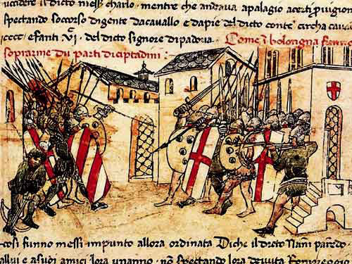 Depiction of a 14th C. fight (1369?) between the militias of the Guelf and Ghibelline factions in the Italian commune of Bologna, from the Croniche of Giovanni Sercambi of Lucca.